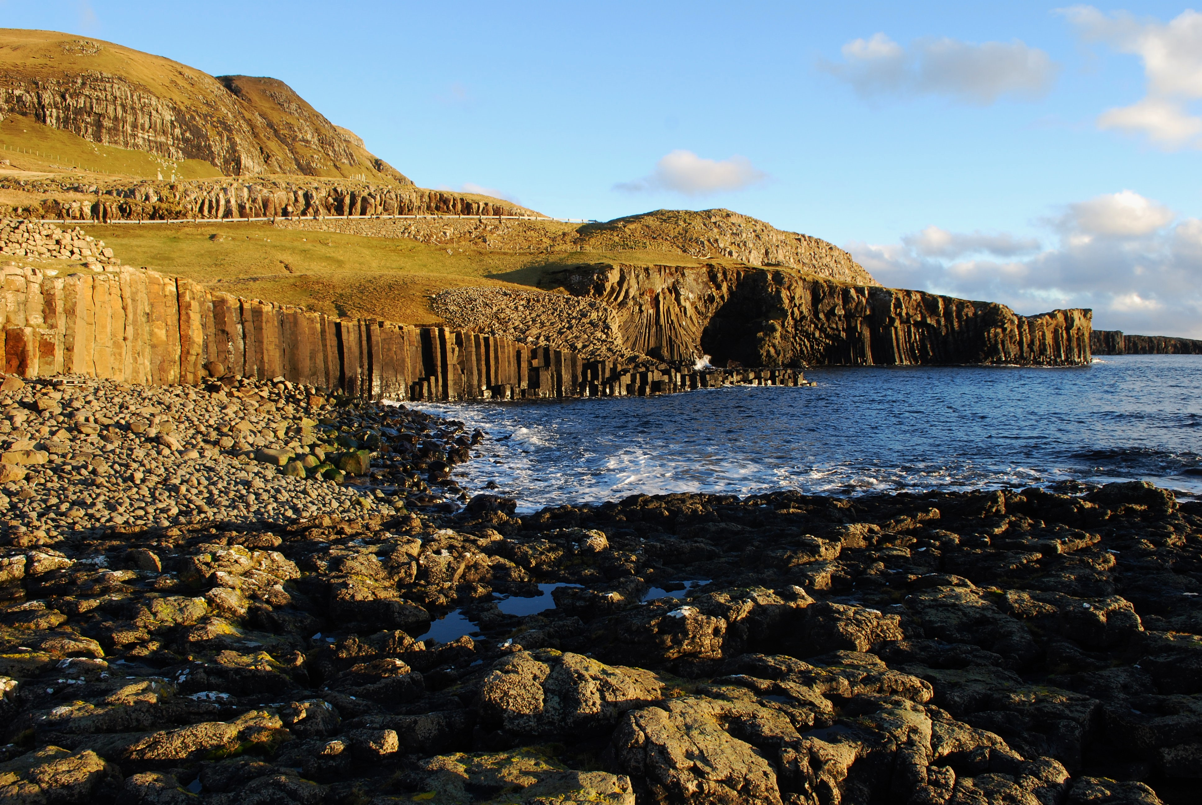 Erik Christensen Columnar Basalt Formations in Kúlugjógv, Froðba, Suðuroy